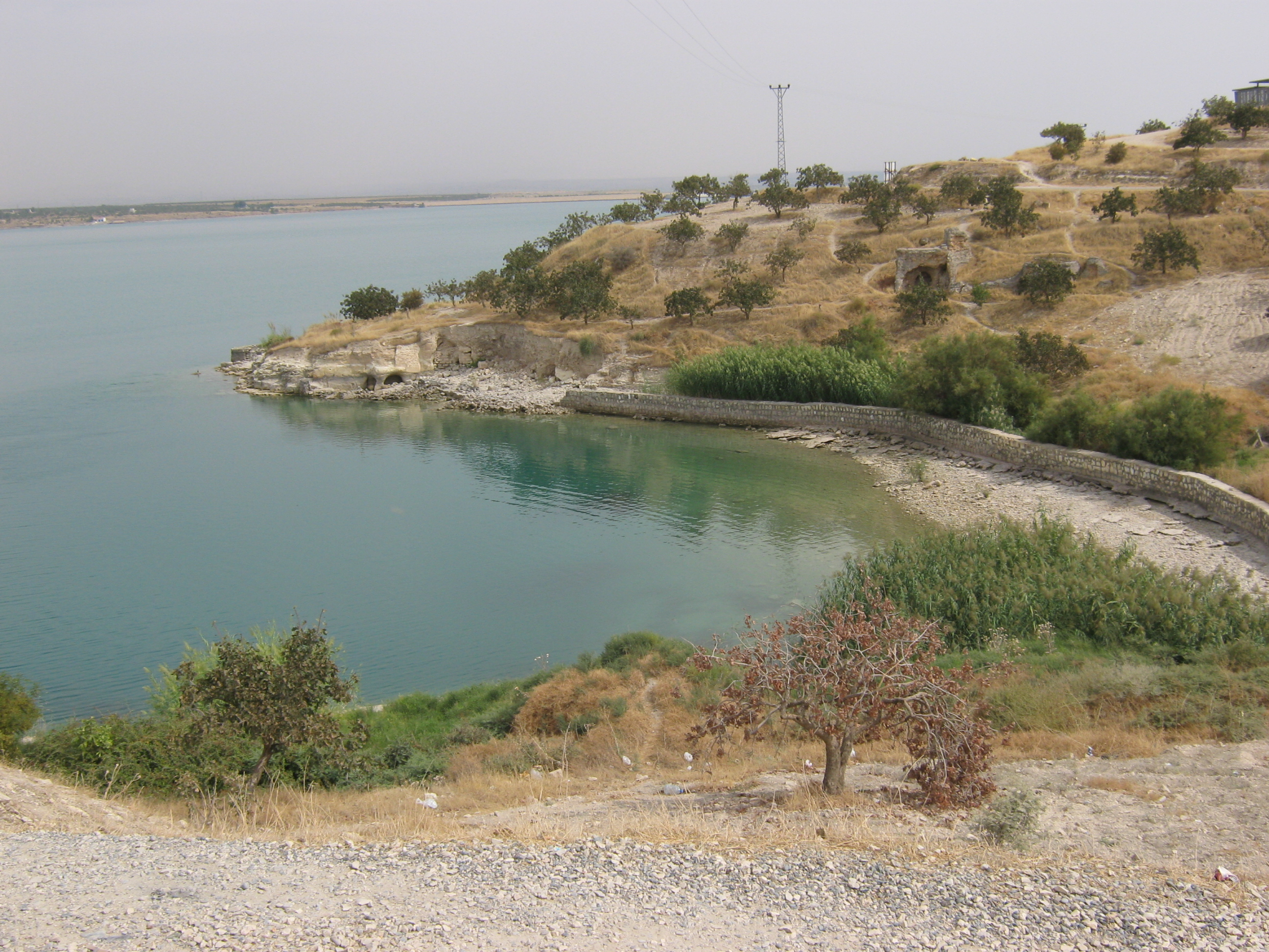 Zeugma